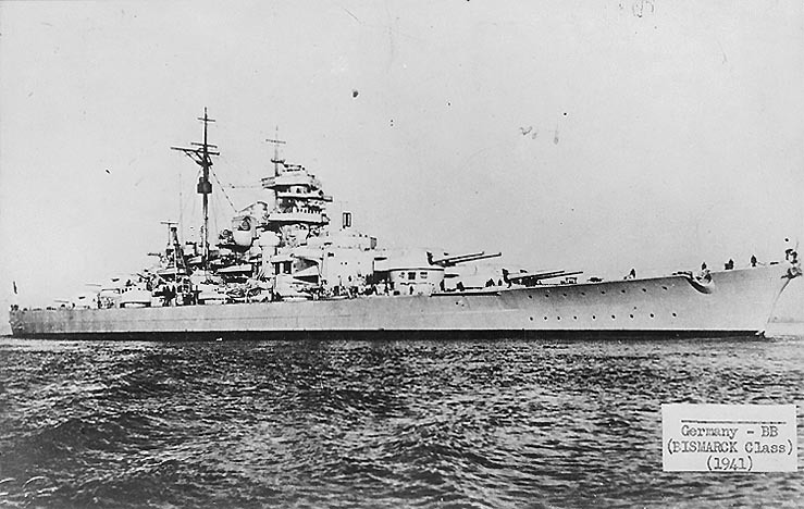 Battleship Bismarck, not yet fully completed